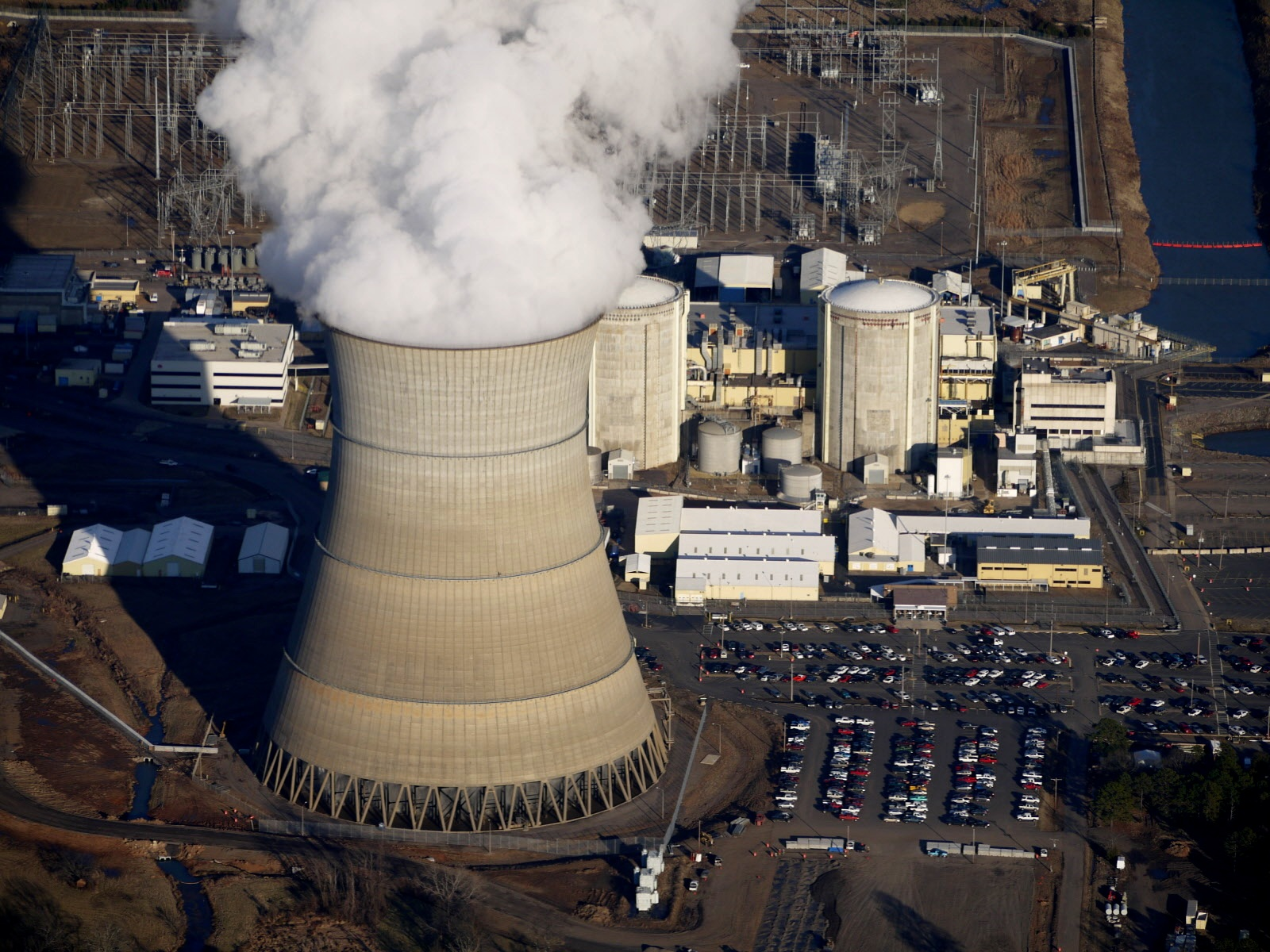 Russellville nuclear power plant, February 2010